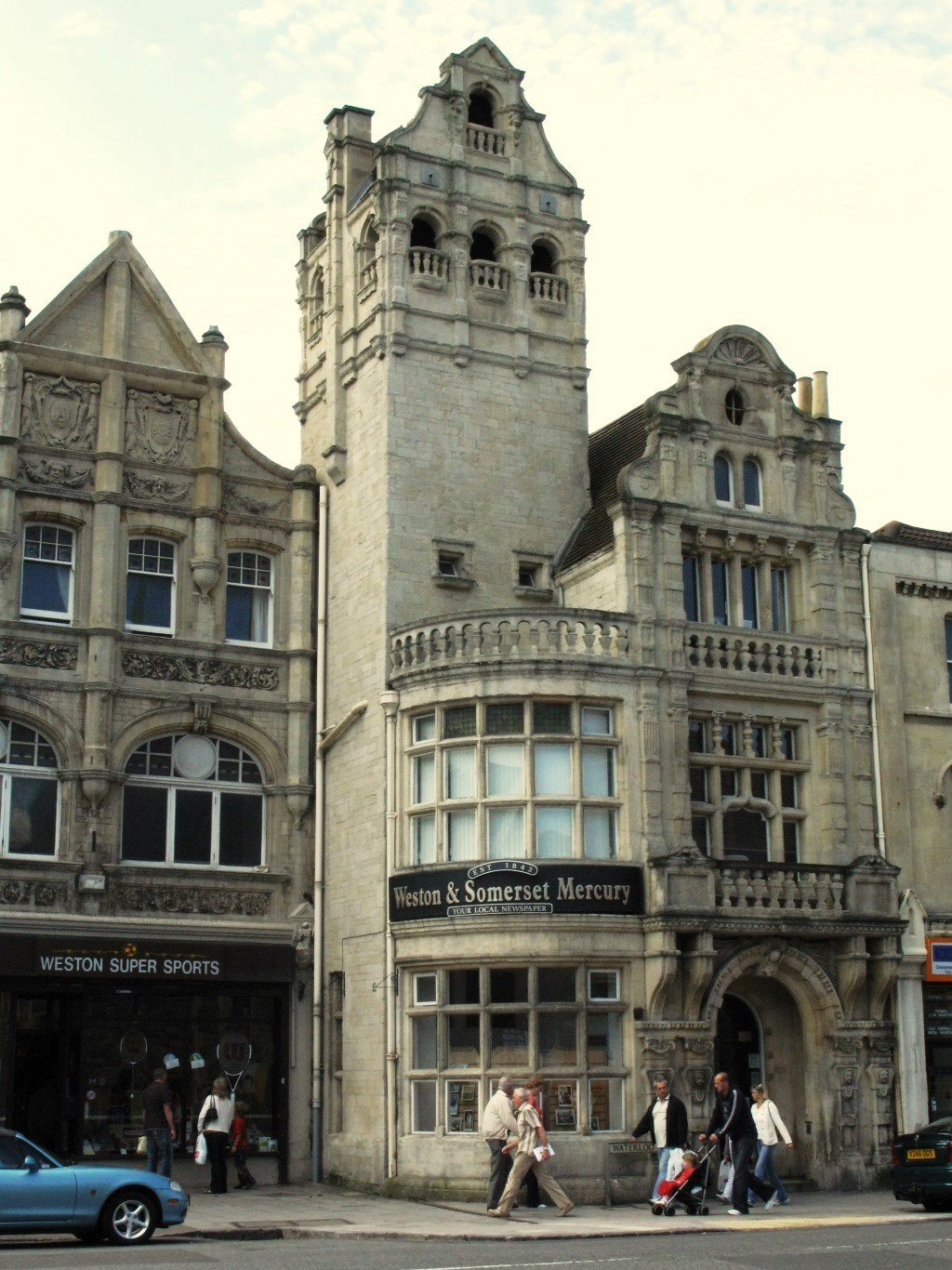 Weston mercury Office, The Boulevard, Weston-super-Mare, Somerset, England. Architect Hans Price.